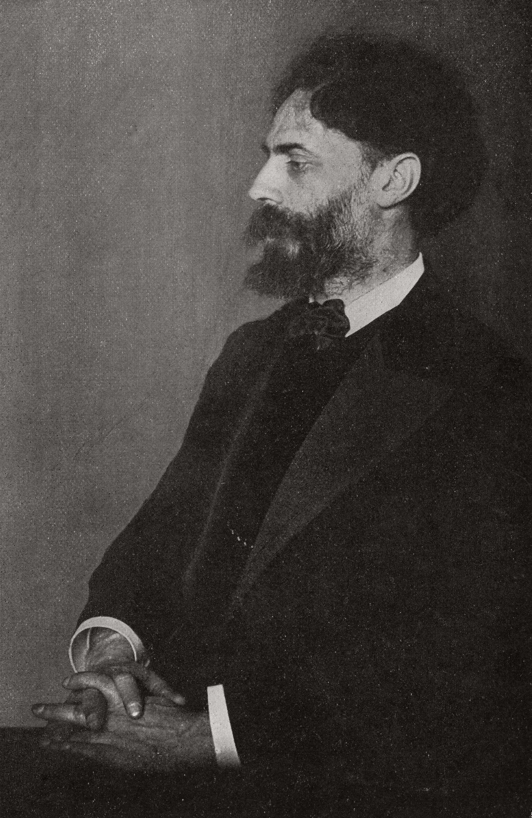 Picture of Alfred Nossig